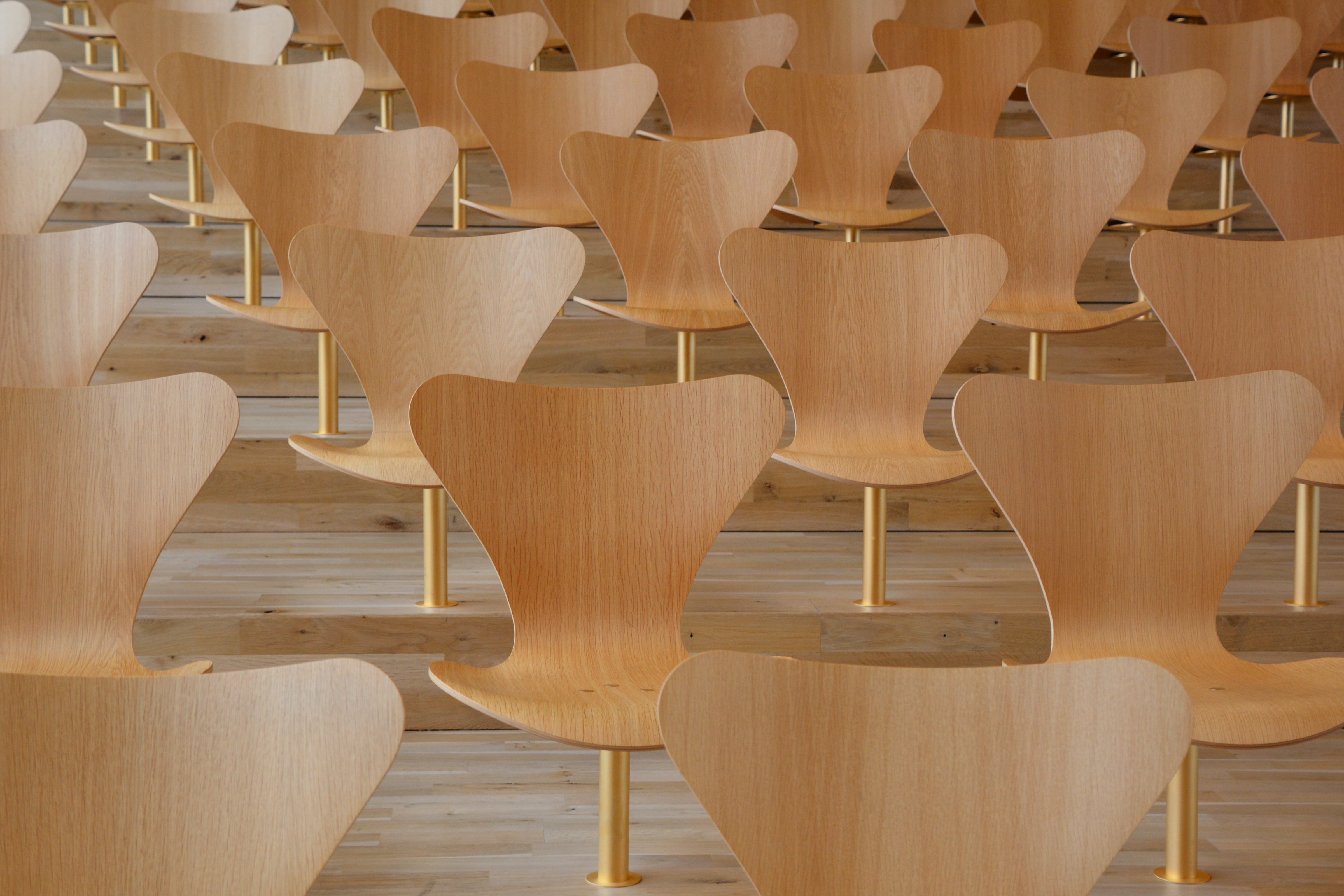 Arne Jacobsen Series 7 chairs, Museet for Söfart, Helsingör